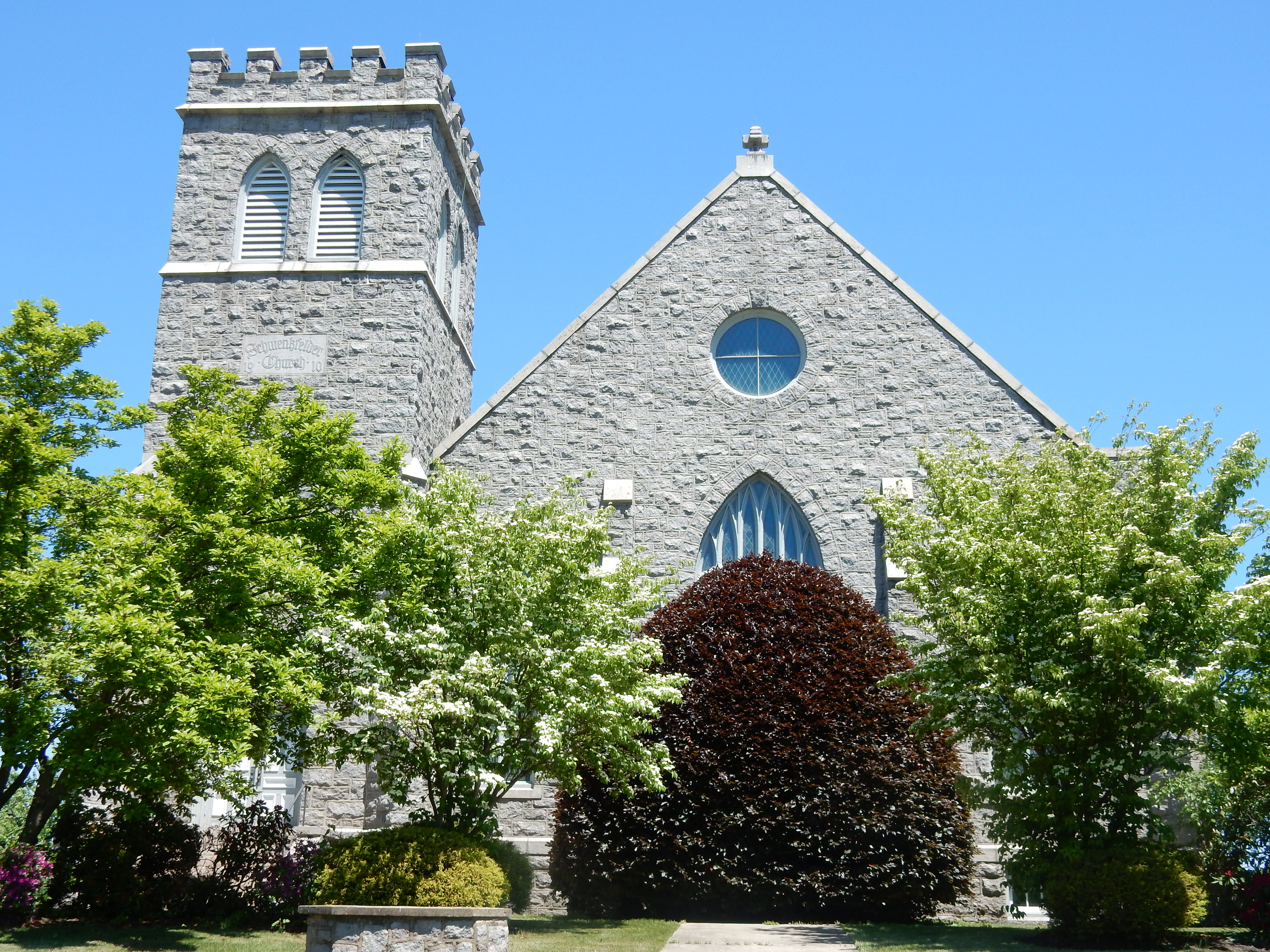 Palm Schwenkfelder Church, Palm, Montgomery County, PA. Built 1910.